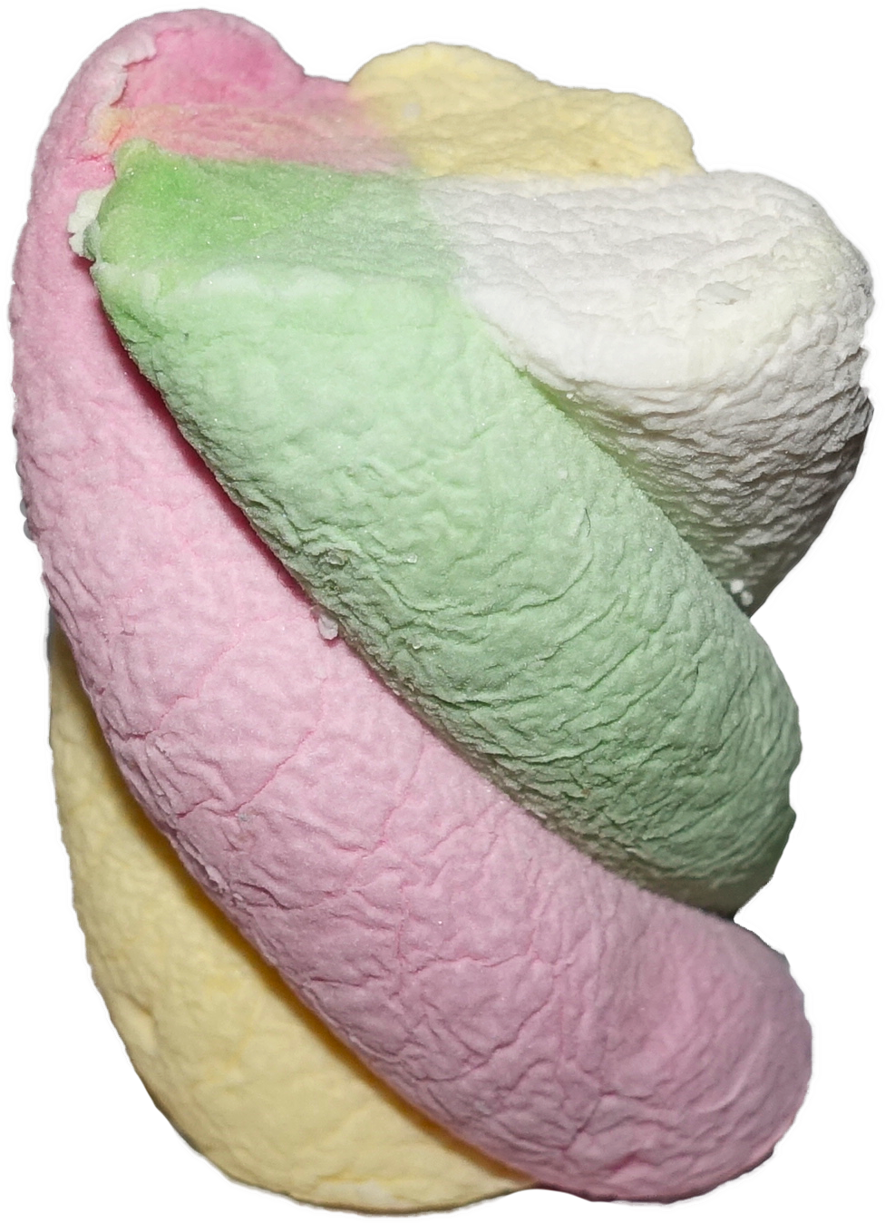 Marshmallow with pink, gree, white and yellow color.